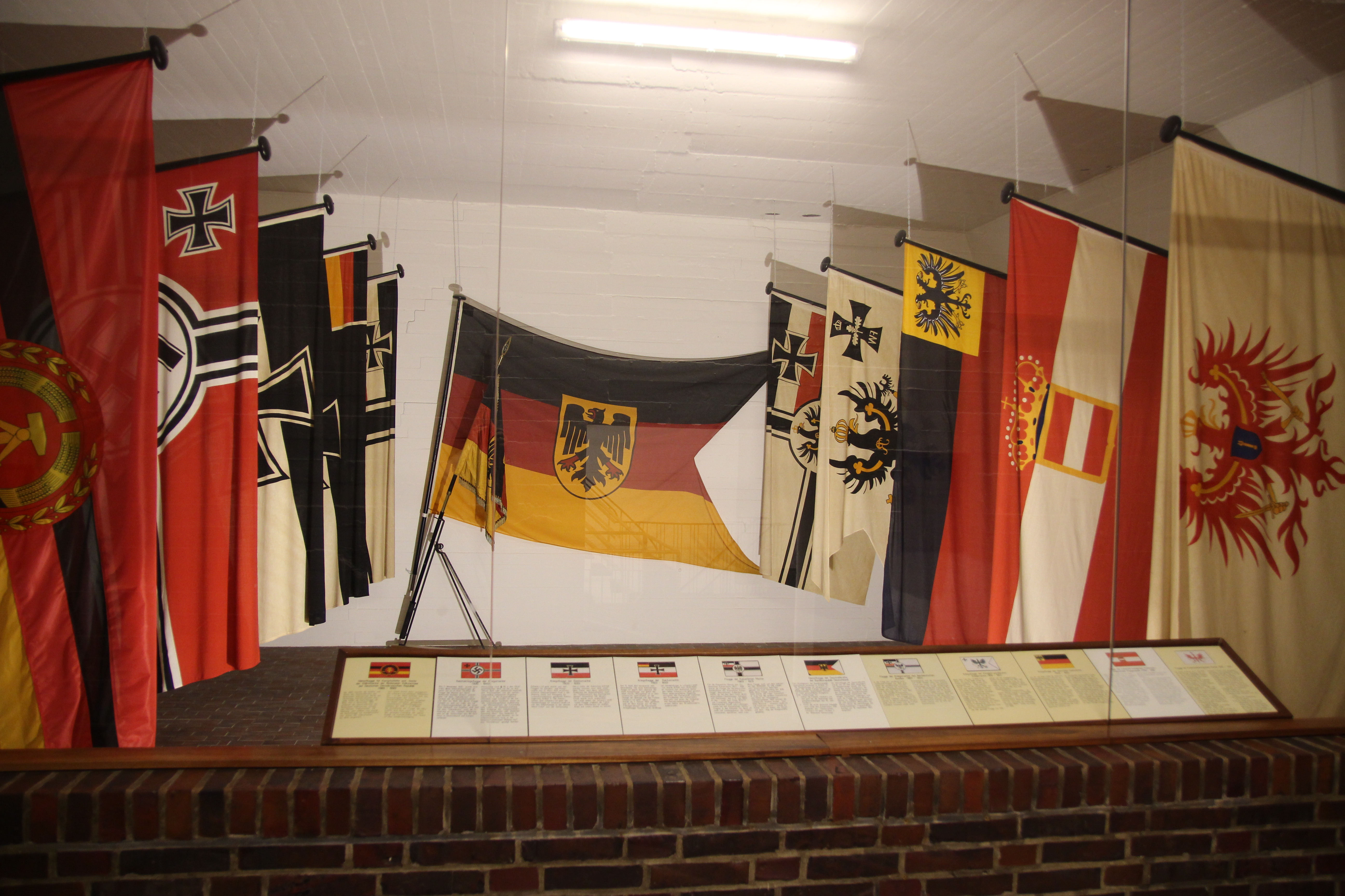 Flags of German fleets in the Marine memorial of Laboe (Kiel)